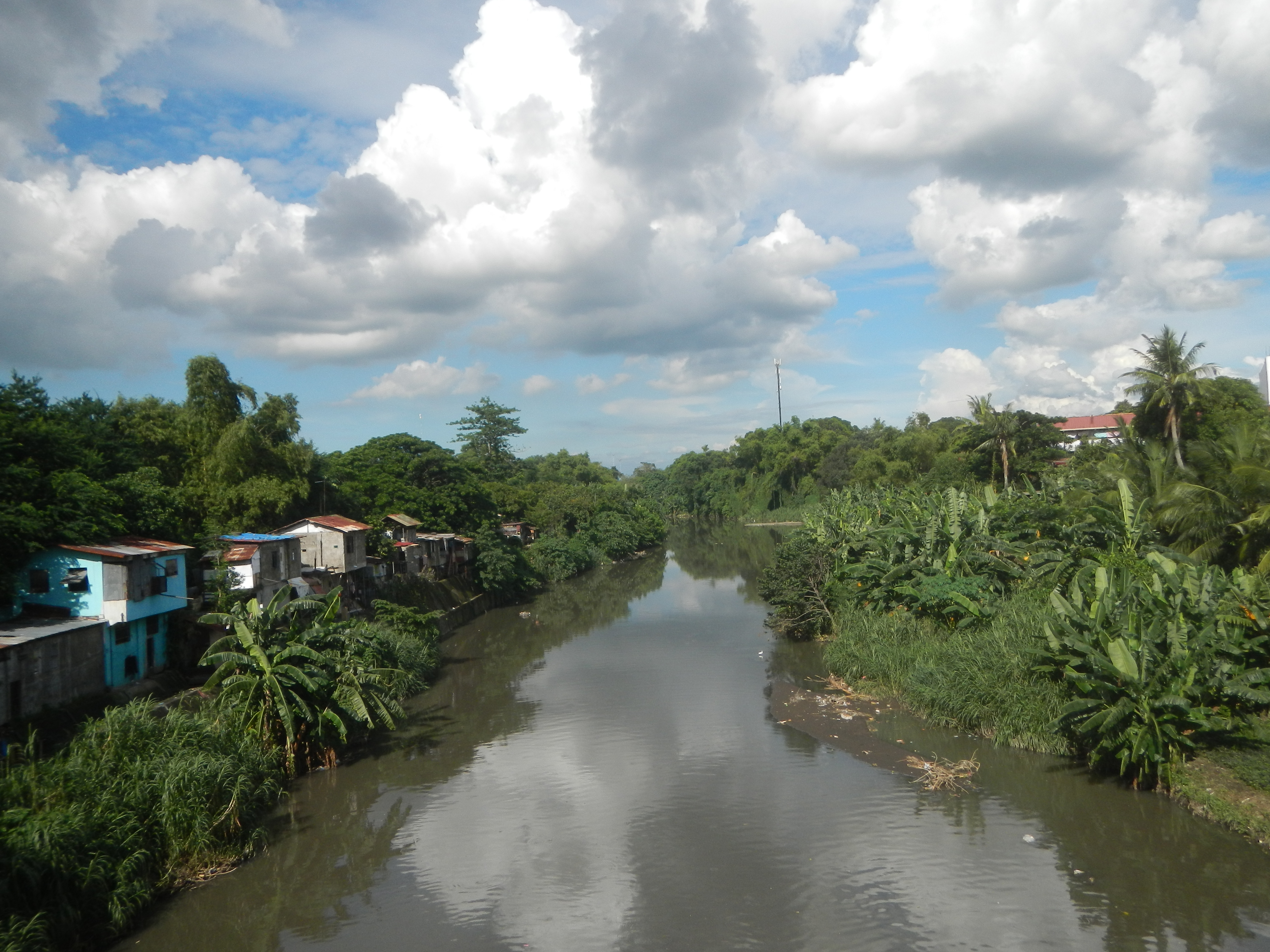 San Cristobal River Matang Tubig River Matang Tubig List of Barangays in Cabuyao Barangay Pulo, Cabuyao, Mamatid, Cabuyao Banlic, Cabuyao Cabuyao along the Calamba-Cabuyao National Highway interconnecting with the National Highway (Calamba Poblacion-Mayapa) Paciano Rizal, Calamba City along Maharlika Highway (Calamba City section) Pan-Philippine Highway N1 of the nation's Philippine highway network bounded by Barangays Paciano Rizal, Calamba Hall 14°12'54"N 121°8'5"E San Cristobal, Calamba City 14.2251, 121.1422 Calamba, Laguna from Poblacion 14°12'32"N 121°9'46"E Calamba Poblacion (Note: Judge Florentino Floro, the owner, to repeat, Donor Florentino Floro of all these photos hereby donate gratuitously, freely and unconditionally Judge Floro all these photos to and for Wikimedia Commons, exclusively, for public use of the public domain, and again without any condition whatsoever).